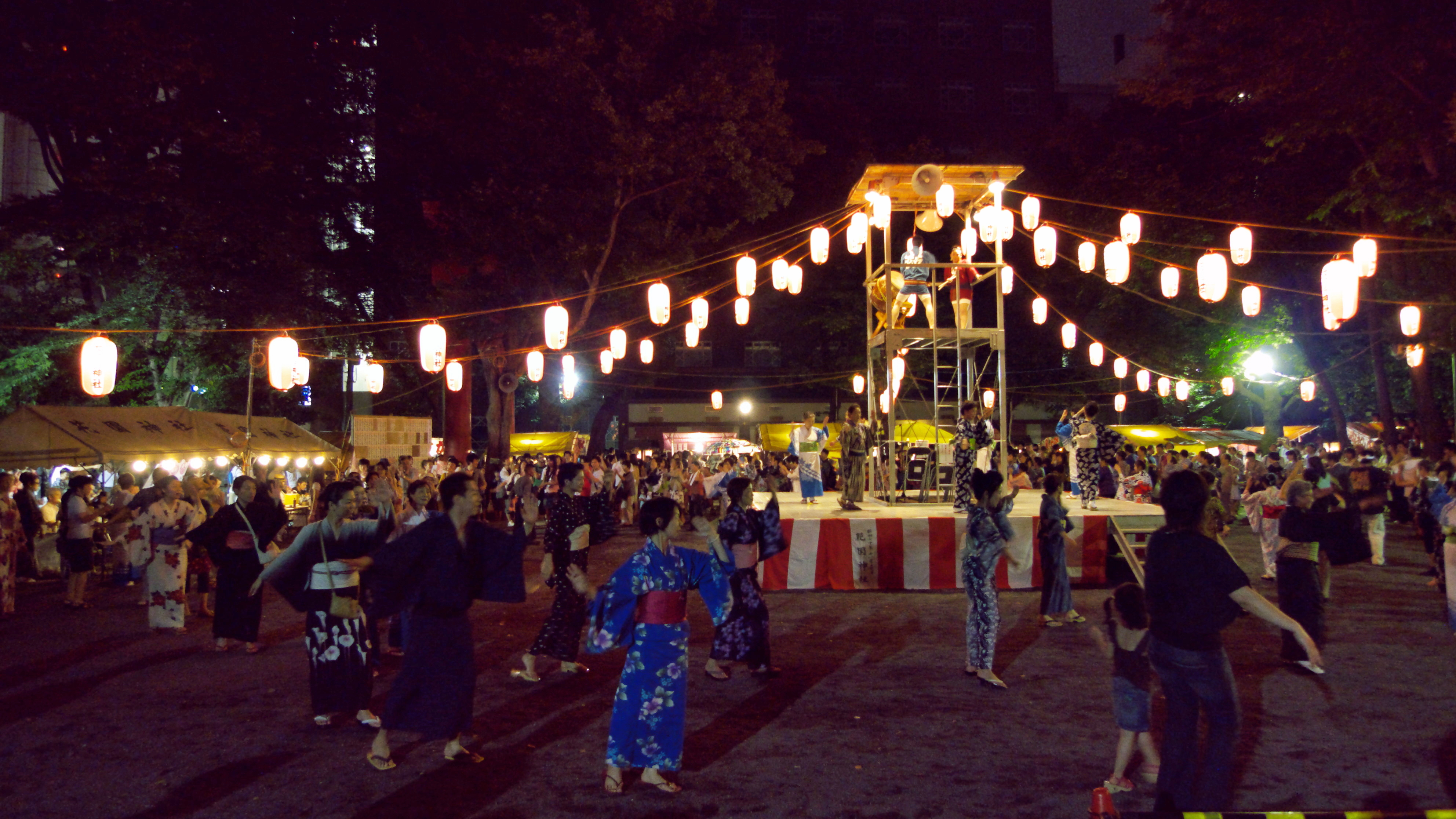 Scene from a bon odori dance festival at the Hanazono Shrine, Shinjuku, Tokyo. Yukata-clad people dance in circles around the yagura as the music plays.